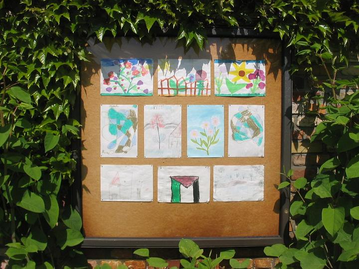 Comenius-Garten nearby the Böhmisches Dorf (Böhmisch-Rixdorf) in Berlin-Neukölln, Germany.